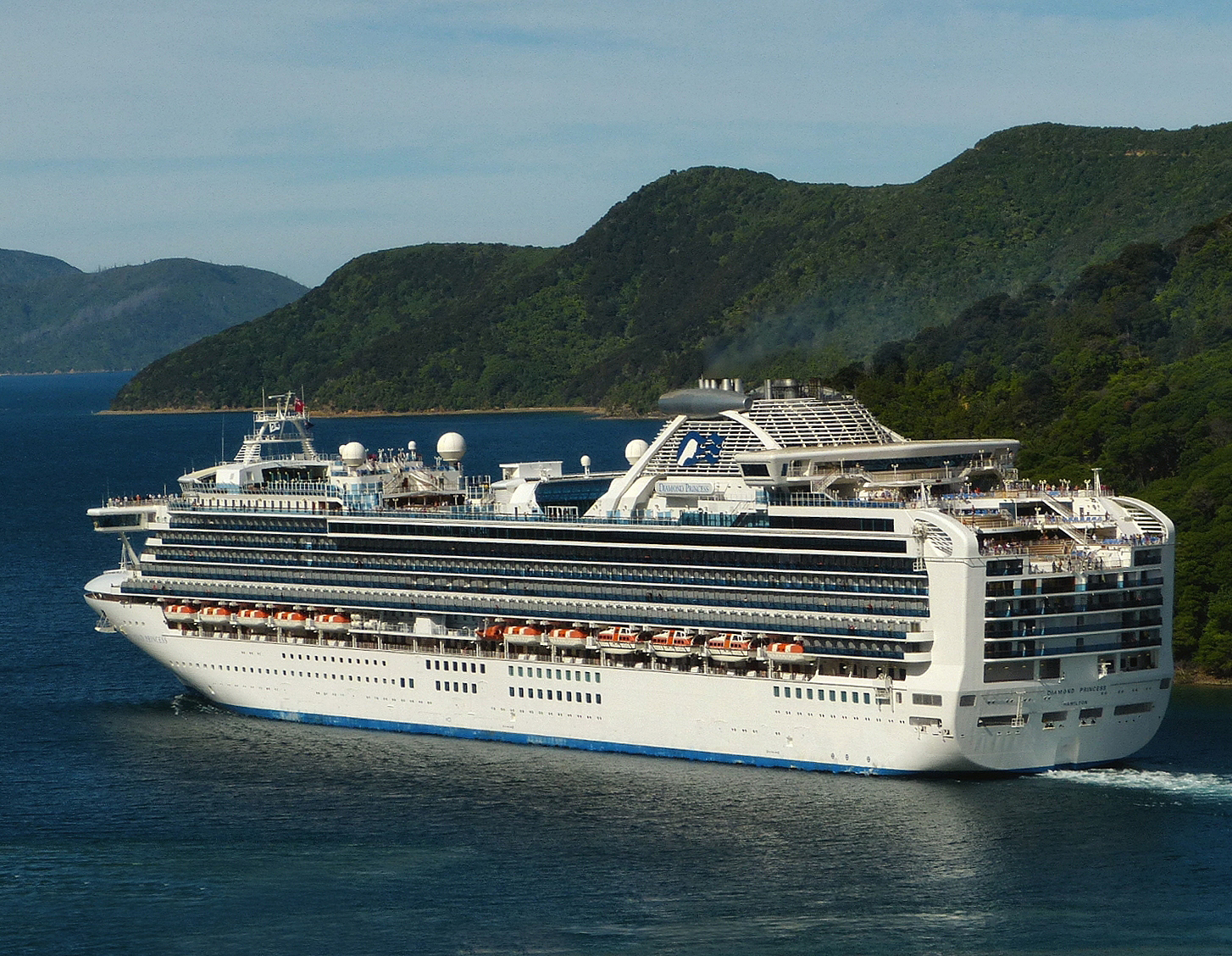 Diamond Princess in Queen Charlotte Sound, Marlborough, New Zealand.